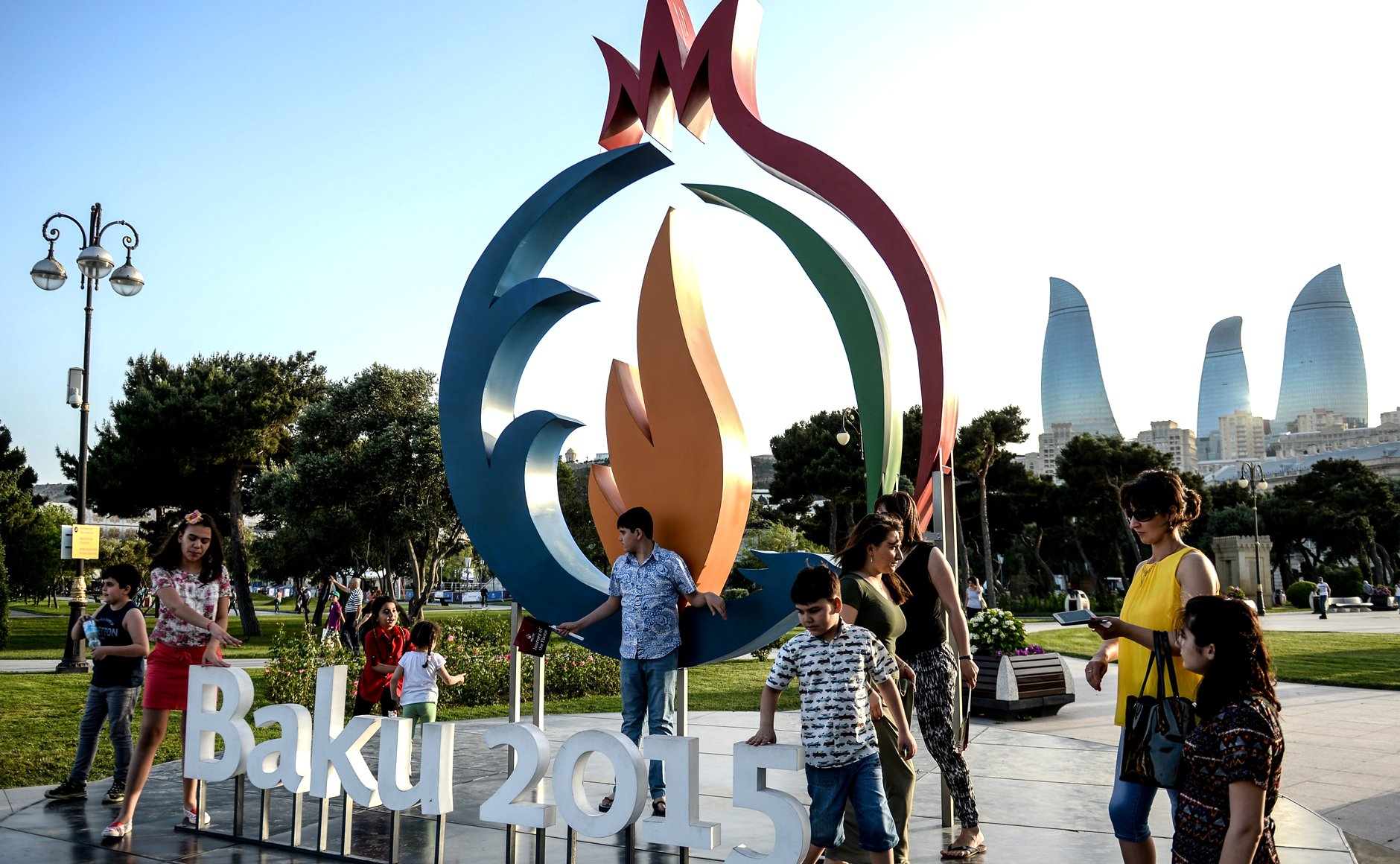 The opening ceremony of the first European games